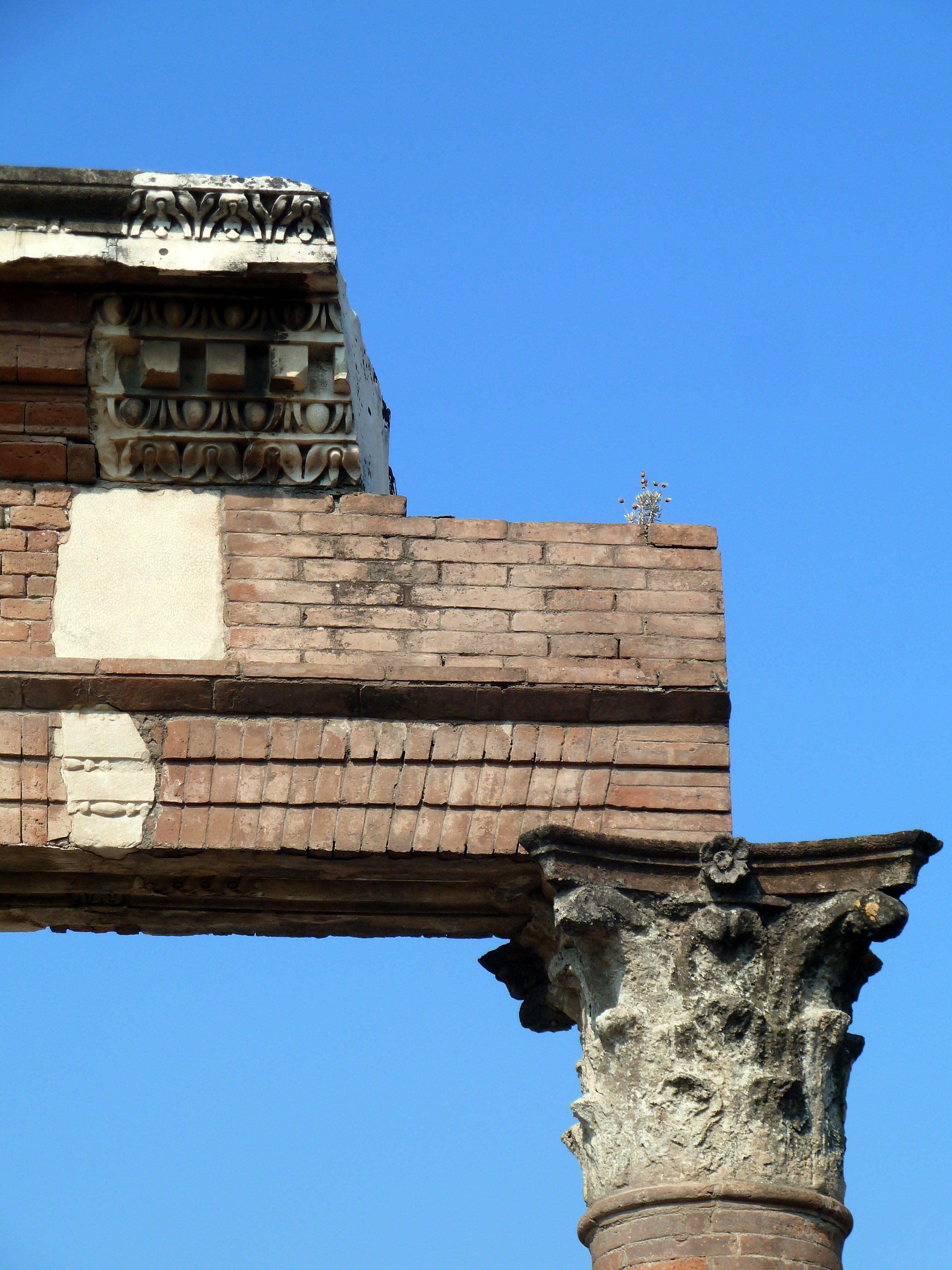 Columns, Forum (with the ubiquitous weed)